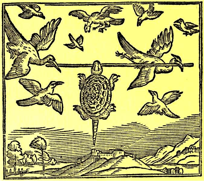 A woodcut from Thomas North's translation of Bidpai's Fables